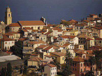 Aerial view of the village of Coldirodi, part of the city of Sanremo in northwestern Italy.